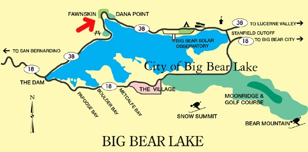 ©2006 Mike Manning